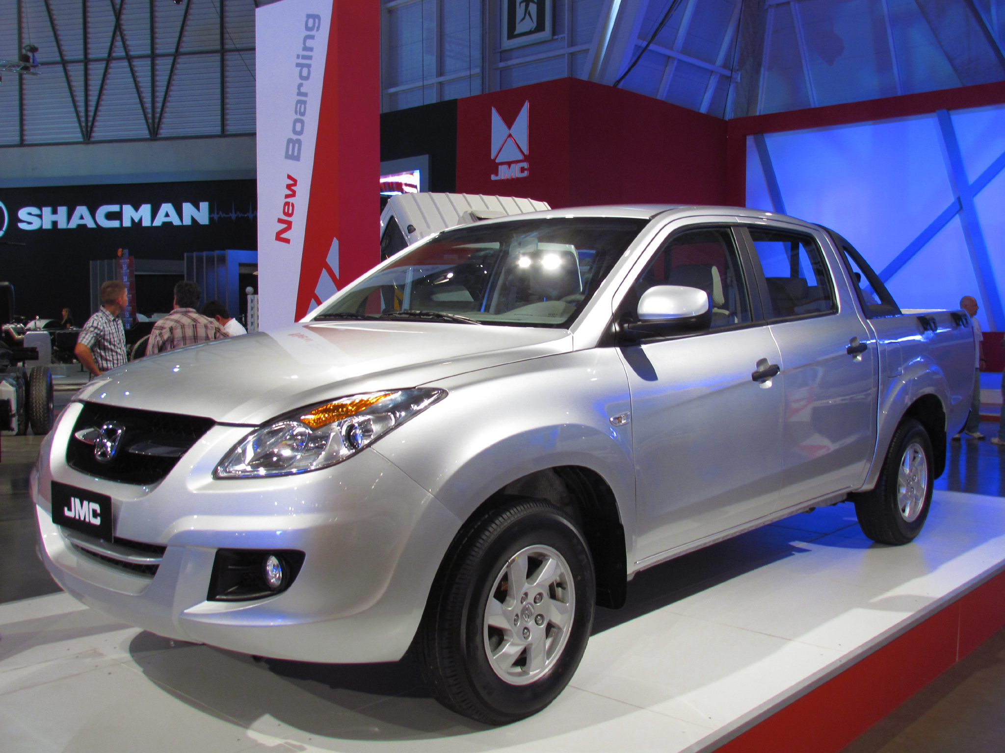 JMC Boarding XLT 2.4 TDCi Crew Cab 2012